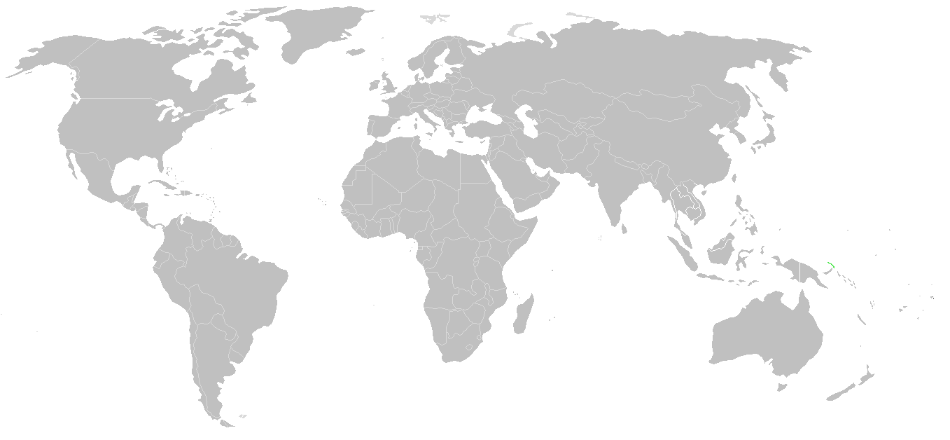 Known world distribution of Opisthoncana formidabilis (New Ireland)